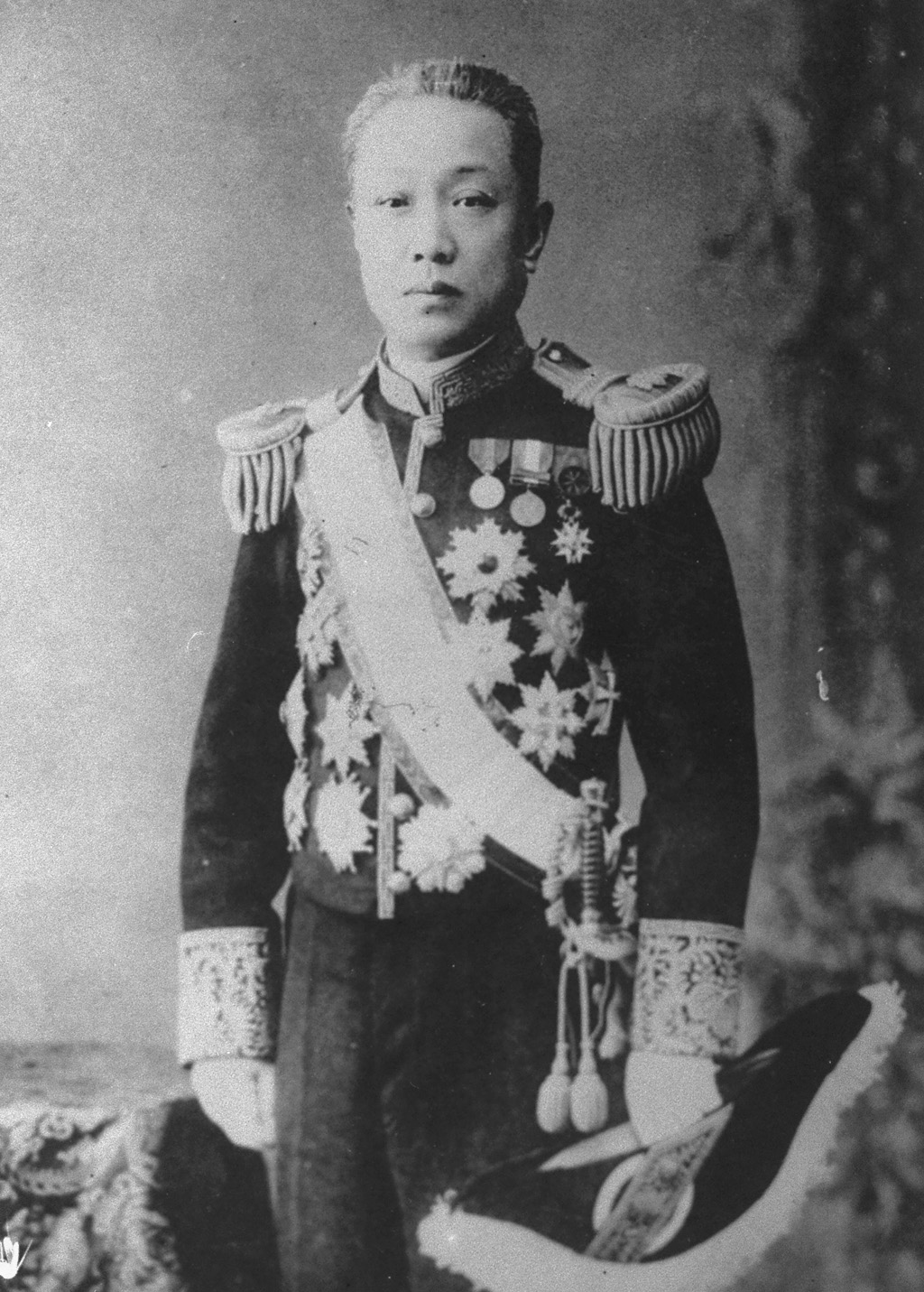 Portrait of Saionji Kinmochi (西園寺公望, 1849 – 1940)